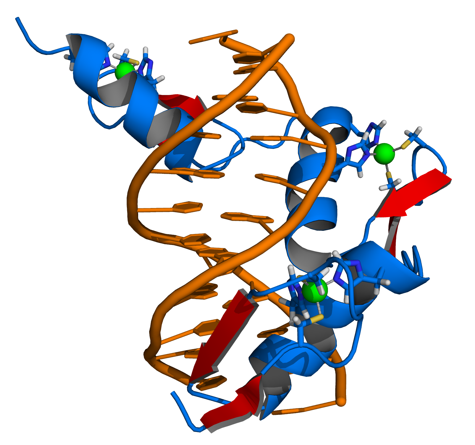 Cartoon representation of a complex between DNA and the ZIF268 protein, containing 3 zinc finger motifs. The coordinating residues of the middle zinc finger are highlighted. Based on the x-ray structure of PDB 1A1L. Color coding: ZIF268: blue; DNA: orange; Zinc ions: green